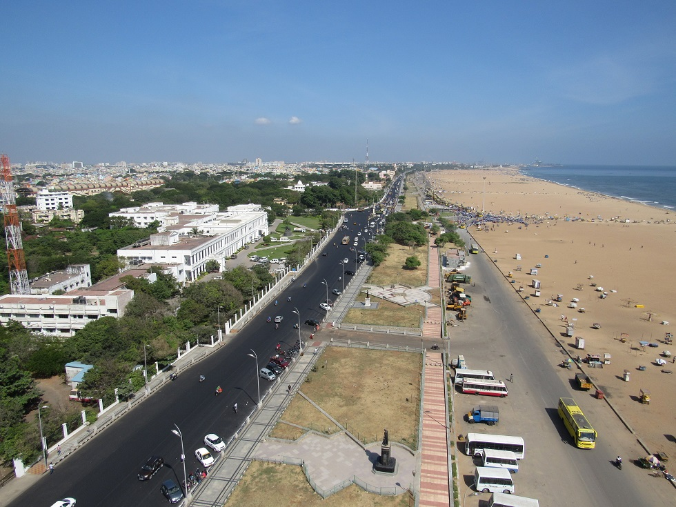 View-from-Marina-Beach-Lighthouse-Chennai-2